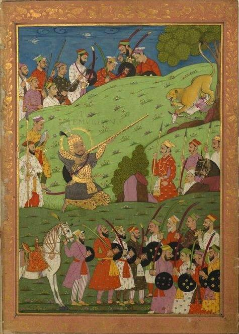 Painting from a book by Niccolò Manucci